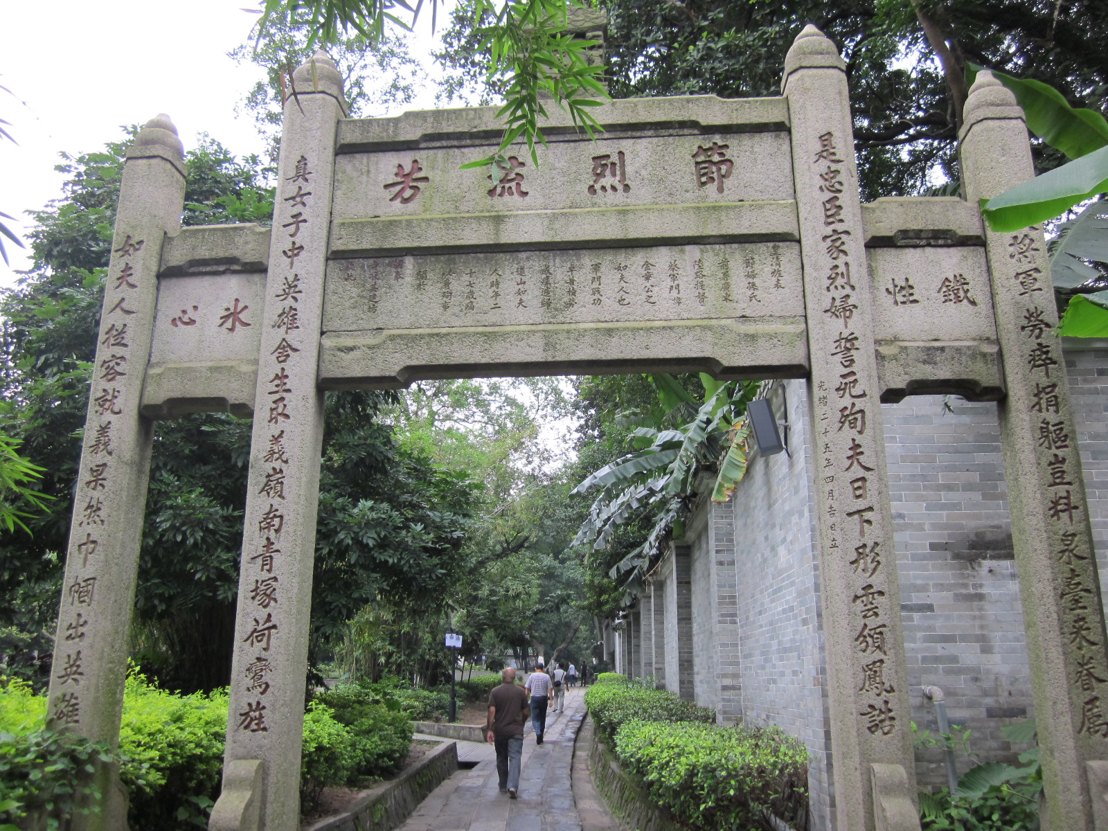 The Xianxian Mosque,Guangzhou